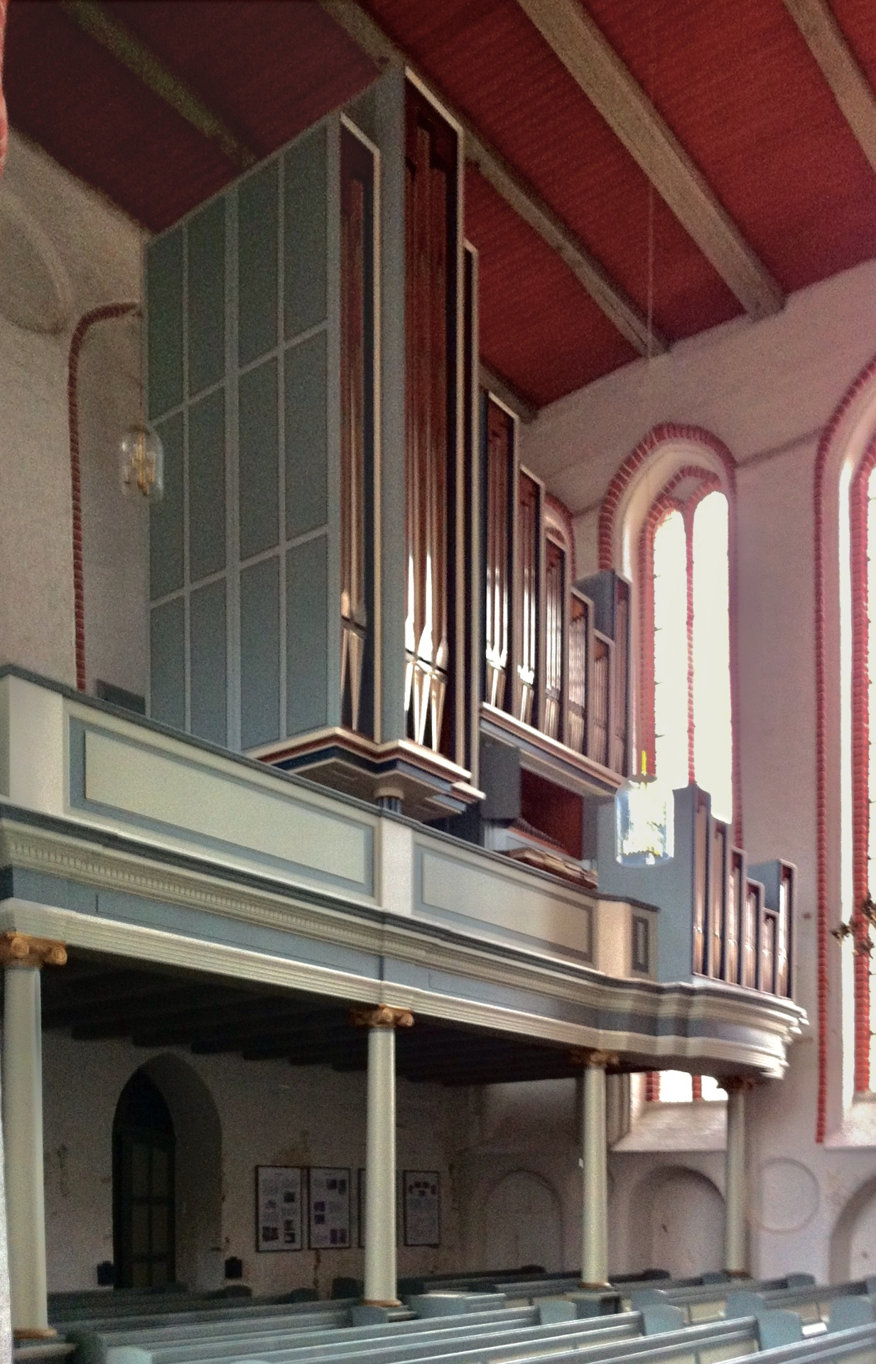 Organ from the company Paul Ott from 1960 in the St. Marien church in Winsen (Luhe)